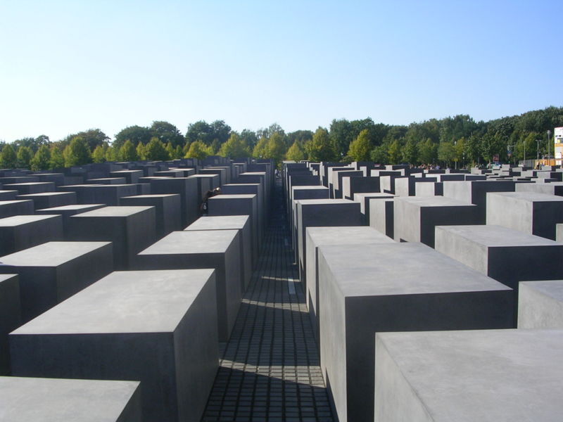 Holocaust memorial of Berlin